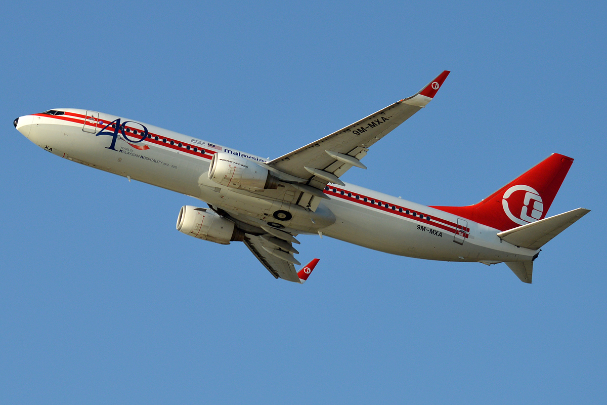 Malaysia Airlines (40 Years Retro Livery), 9M-MXA, Boeing 737-8H6